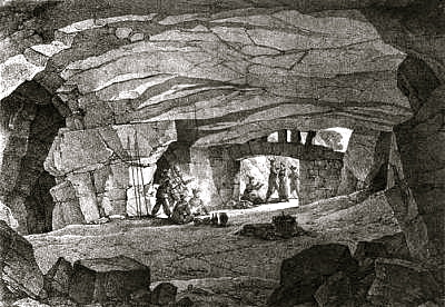 View of the " Carrière des Montalets " (or Montalets or Montalais ) Gravure of Bacler d'Albe and Lithography of Villain